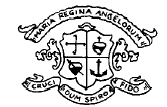 This is the crest of Loreto Secondary School, St. Michael's, Navan, Co. Meath, Ireland